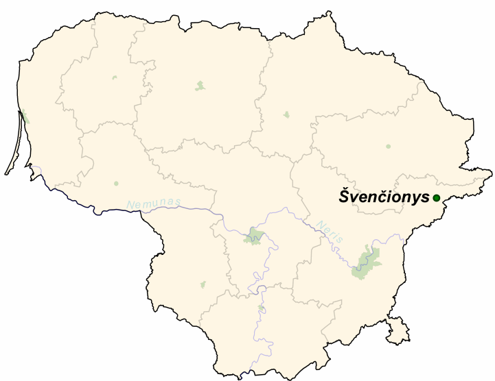 Švenčionys on the map of Lithuania